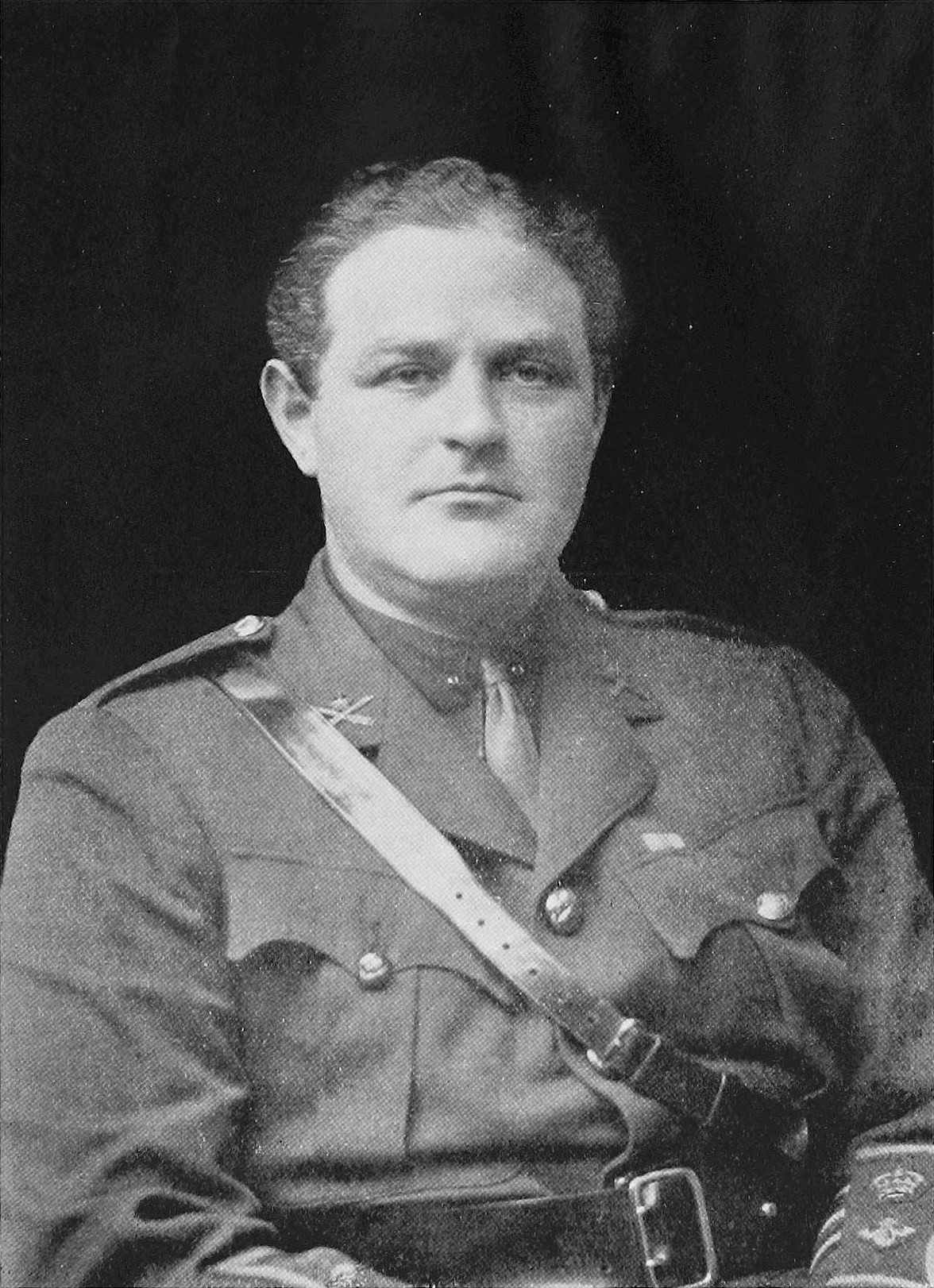 Portrait photograph of Sir Albert Gerald Stern (1878–1966)